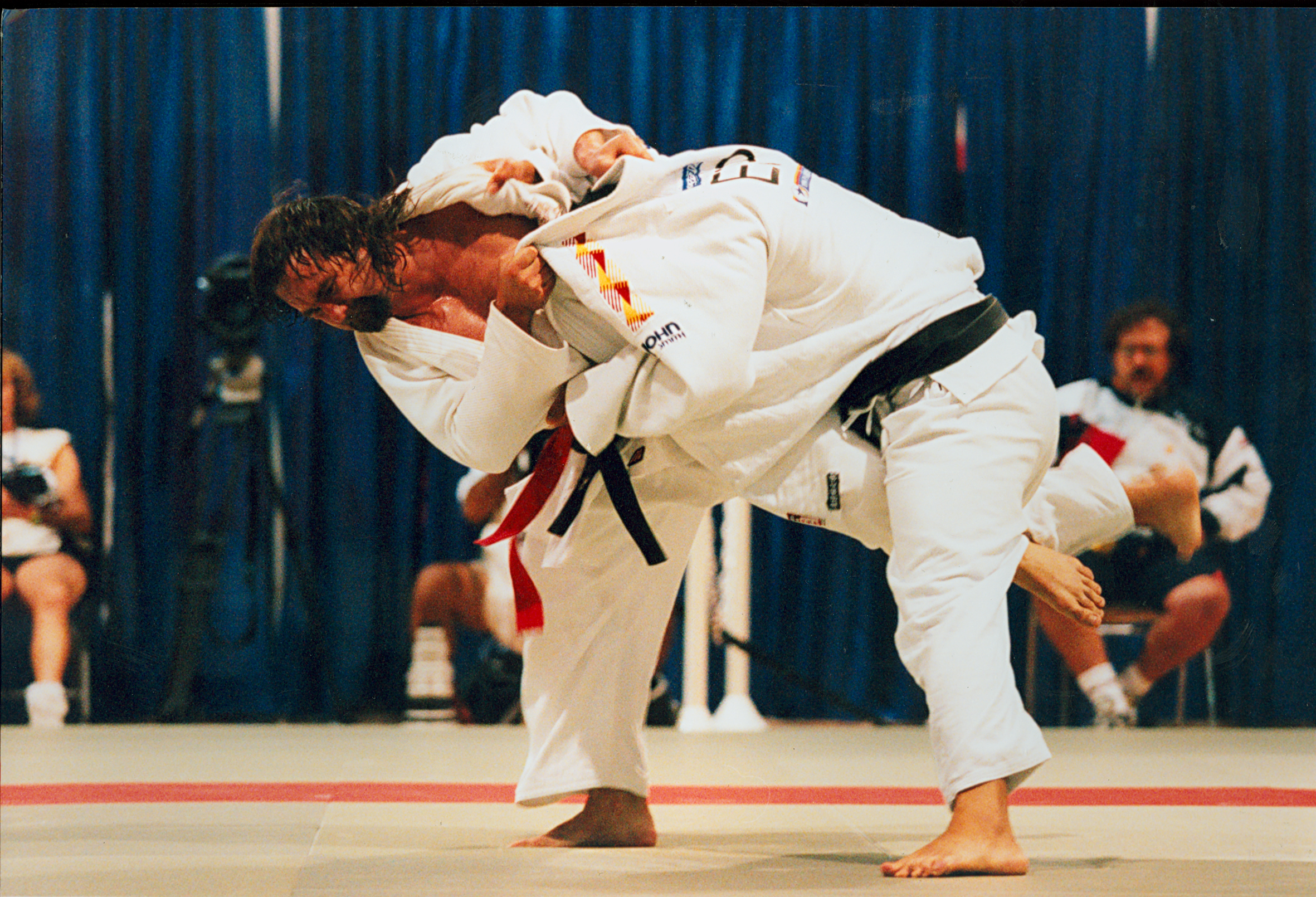 Australian vision impaired judoka Anthony Clarke (bearded) in a bout on his way to the gold medal in the 95kg class at the 1996 Atlanta Paralympic Games